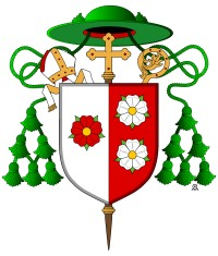 Coat of arms of Maxmilián Rudolf Schleinitz, Bishop of Litoměřice